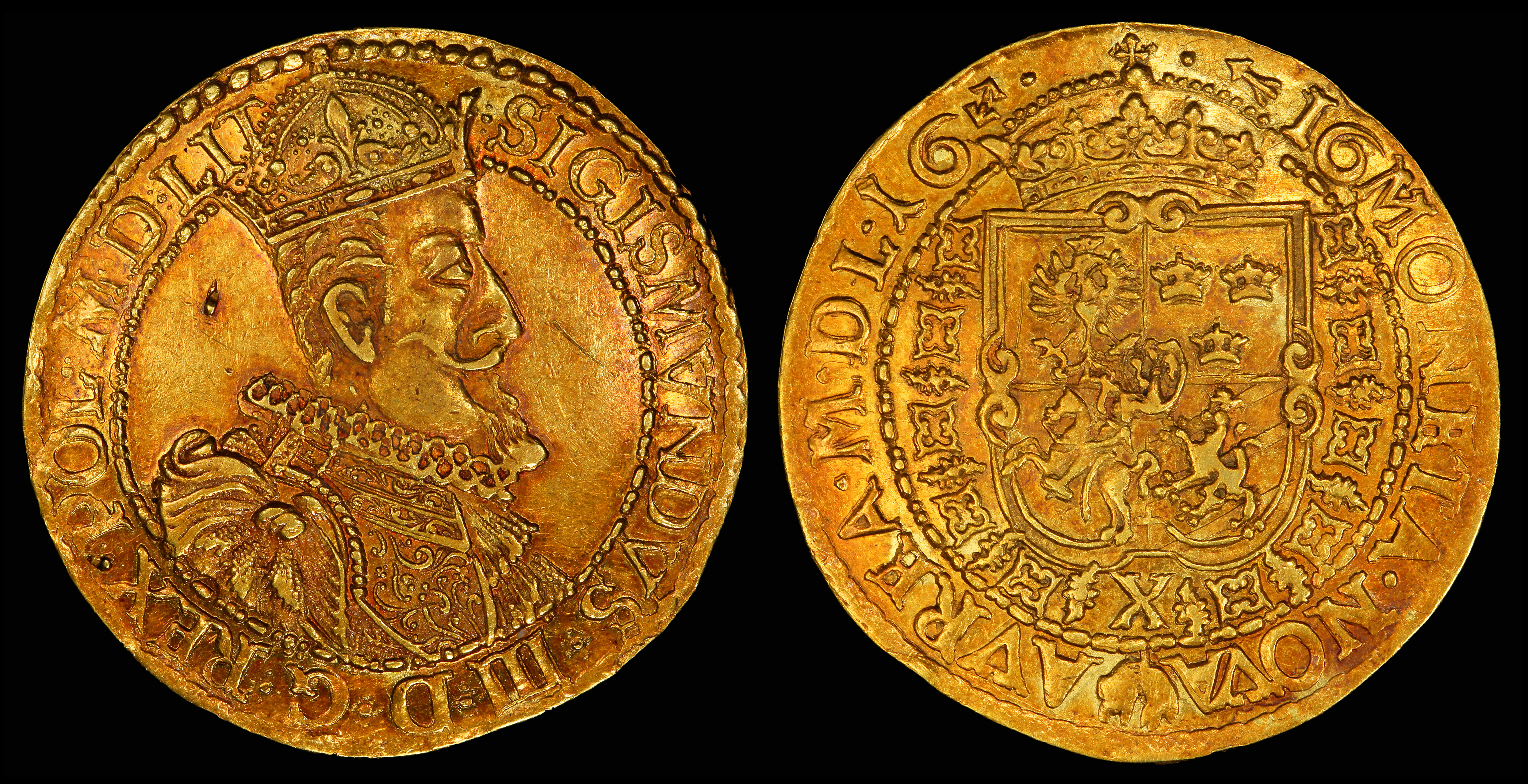 Grand Duchy of Lithuania, 10 Ducat gold coin (1616) depicting Sigismund III Vasa as Grand Duke of Lithuania, and bearing the privy marks of Hieronim Wołłowicz, Grand Treasurer of Lithuania on the reverse.[1]